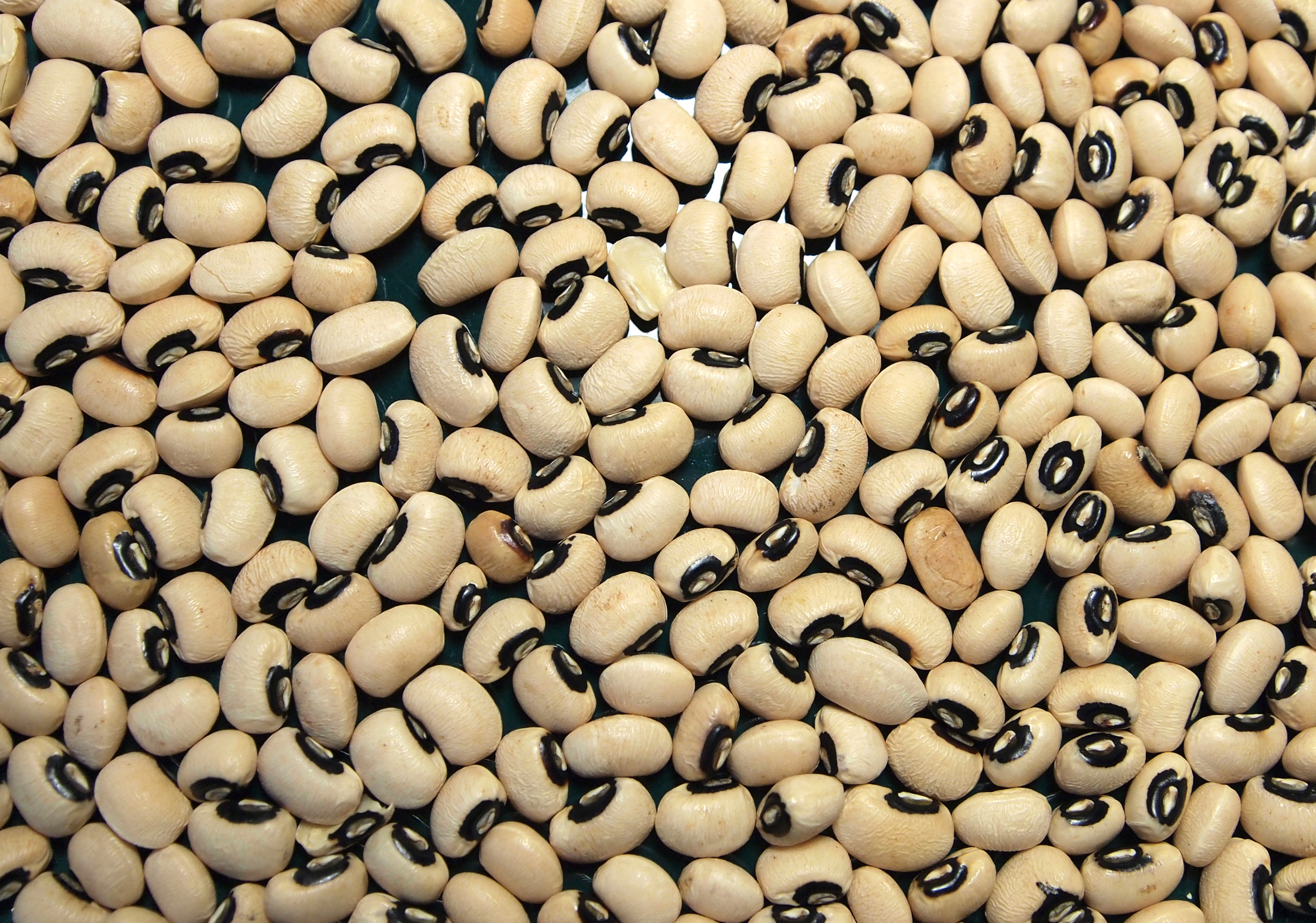 Black-eyed beans. This photograph was taken with an Olympus E-PL1